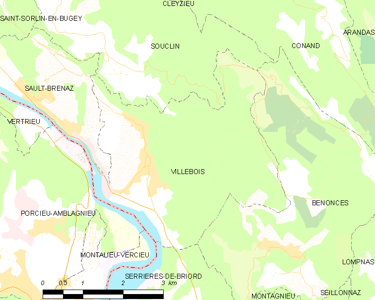 Map of French commune: Villebois Map commune FR insee code 01444.png